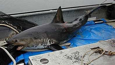 Salmon shark (Lamna ditropis)